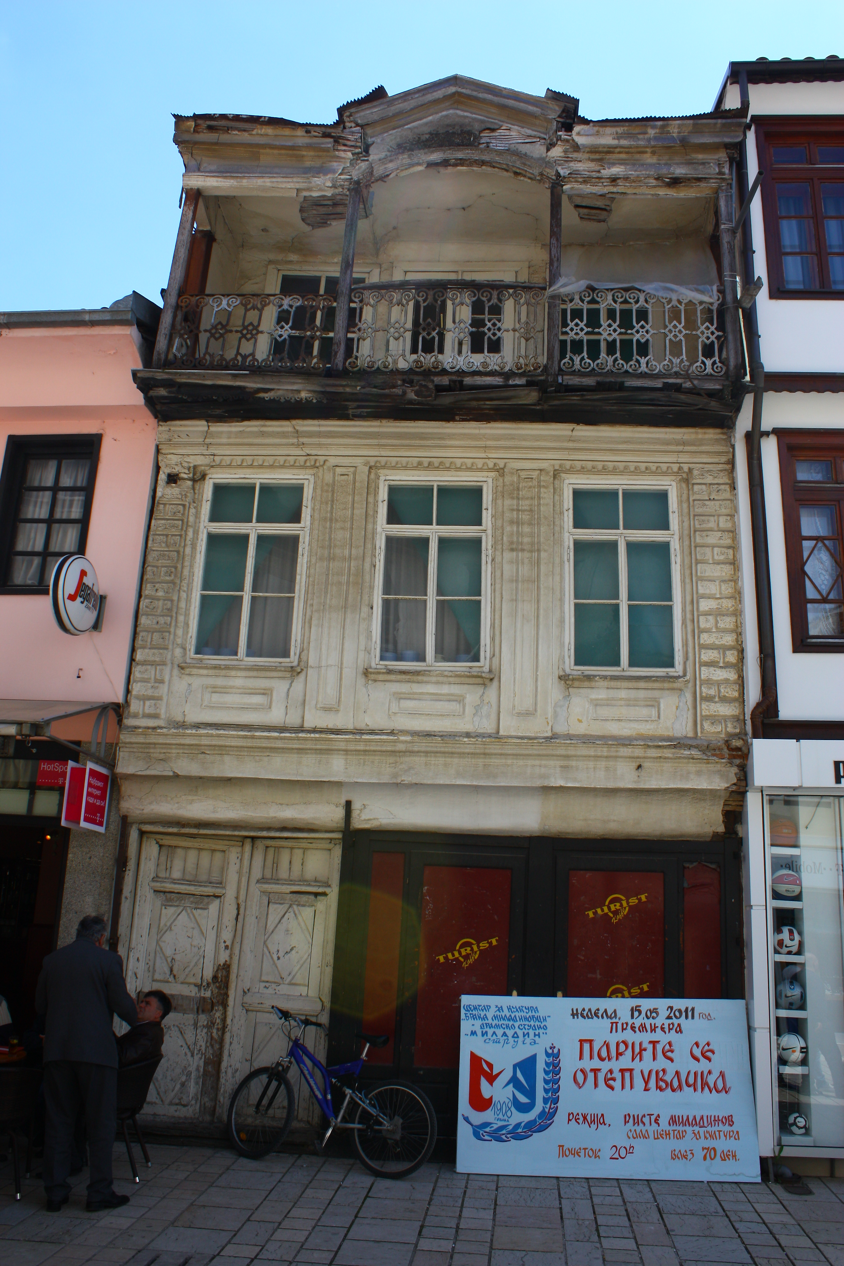 Struga, Macedonia